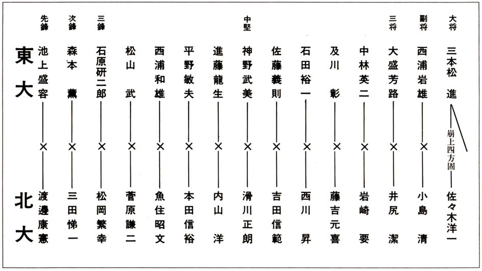 nanatei judo